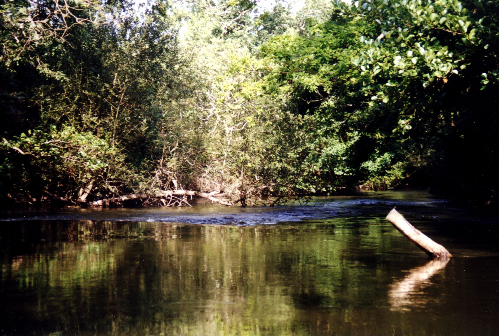 Waterfall on the stream